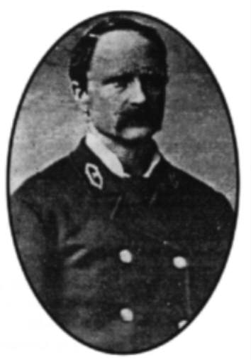 Pre-1923 image found on Coast Guard website